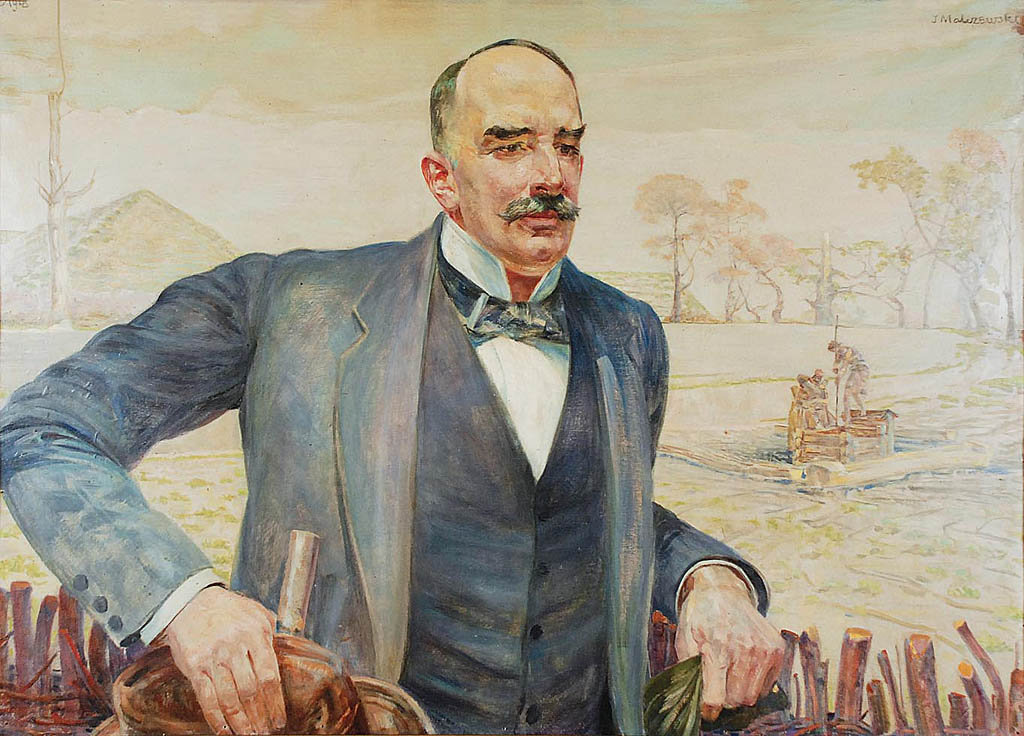 professor at the Jagiellonian University in Krakow and the Free Polish University in Warsaw, conservative politician, member of the Galician Sejm and the Austrian State Council